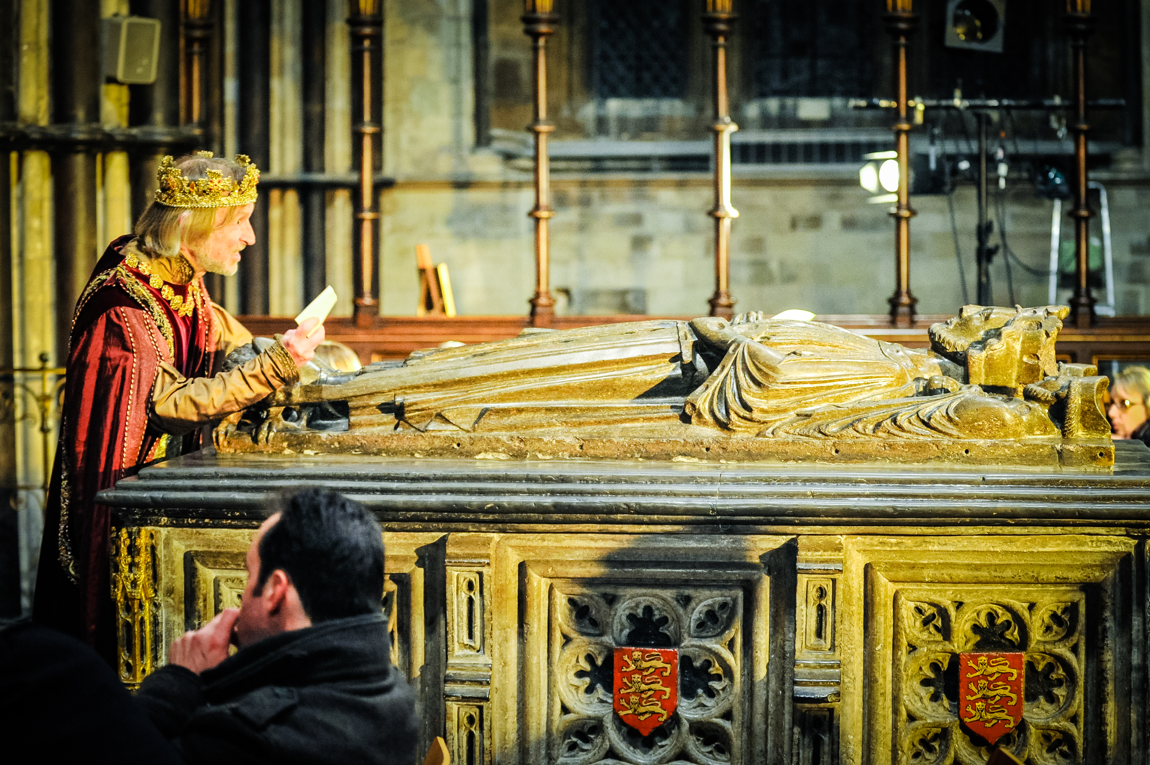 Philip Leach as King John in front of the tomb of the monarch in the 2016 production of Shakespeare's King John staged by the Worcester Repertory Company in Worcester Cathedral on the 800th Anniversary of the King's Death. Directed by Ben Humphrey